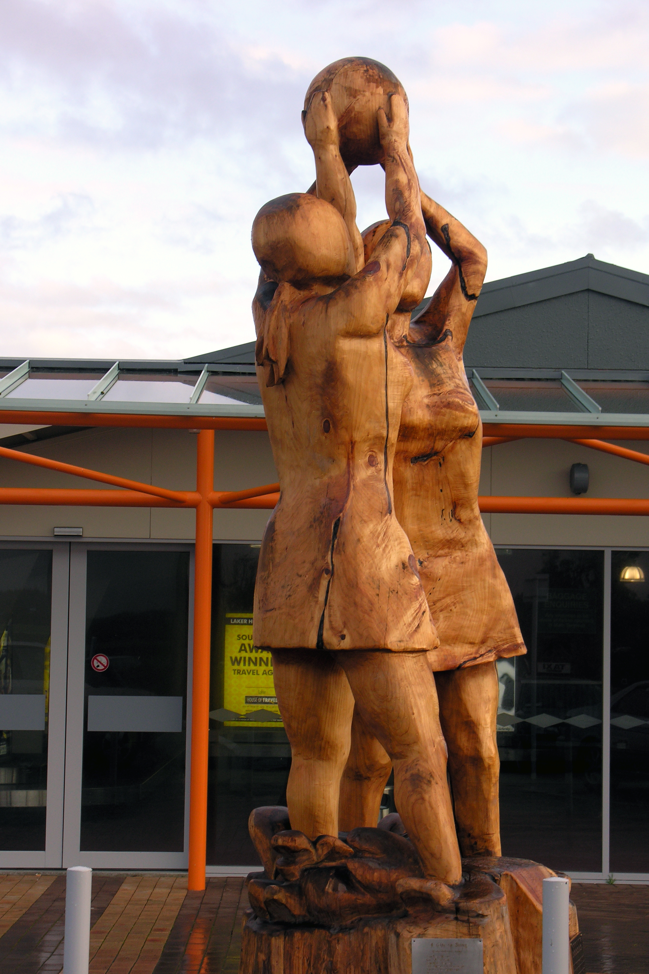 Unless you live in New Zealand, Australia, Jamaica or England you have probably never heard of this game. but it's BIG in Invercargill